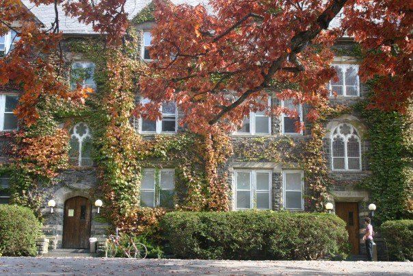 This image was taken in 2007; it shows Stone Row, a landmark facility in the center of Bard's campus.